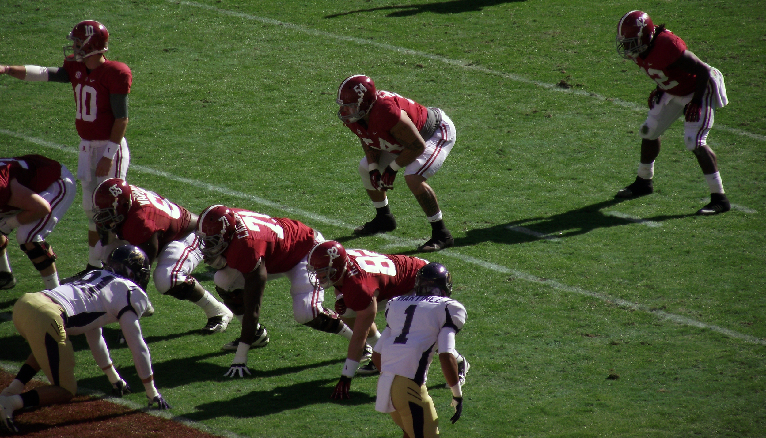 Alabama nose guard Jesse Williams (No. 54) playing on offense as a fullback against Western Carolina at Bryant–Denny Stadium.